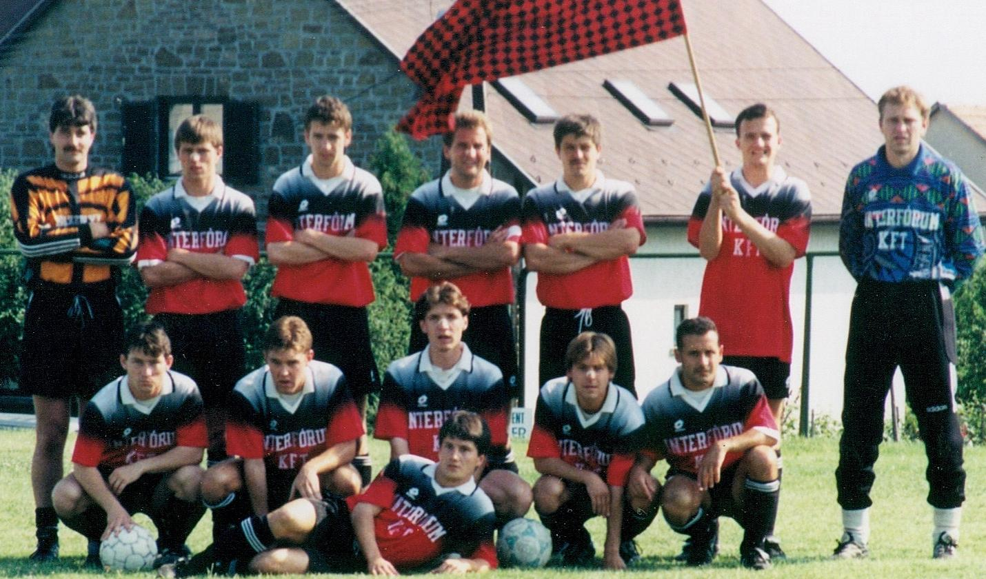 FC Dorog as champion in Tihany in 1997 summer